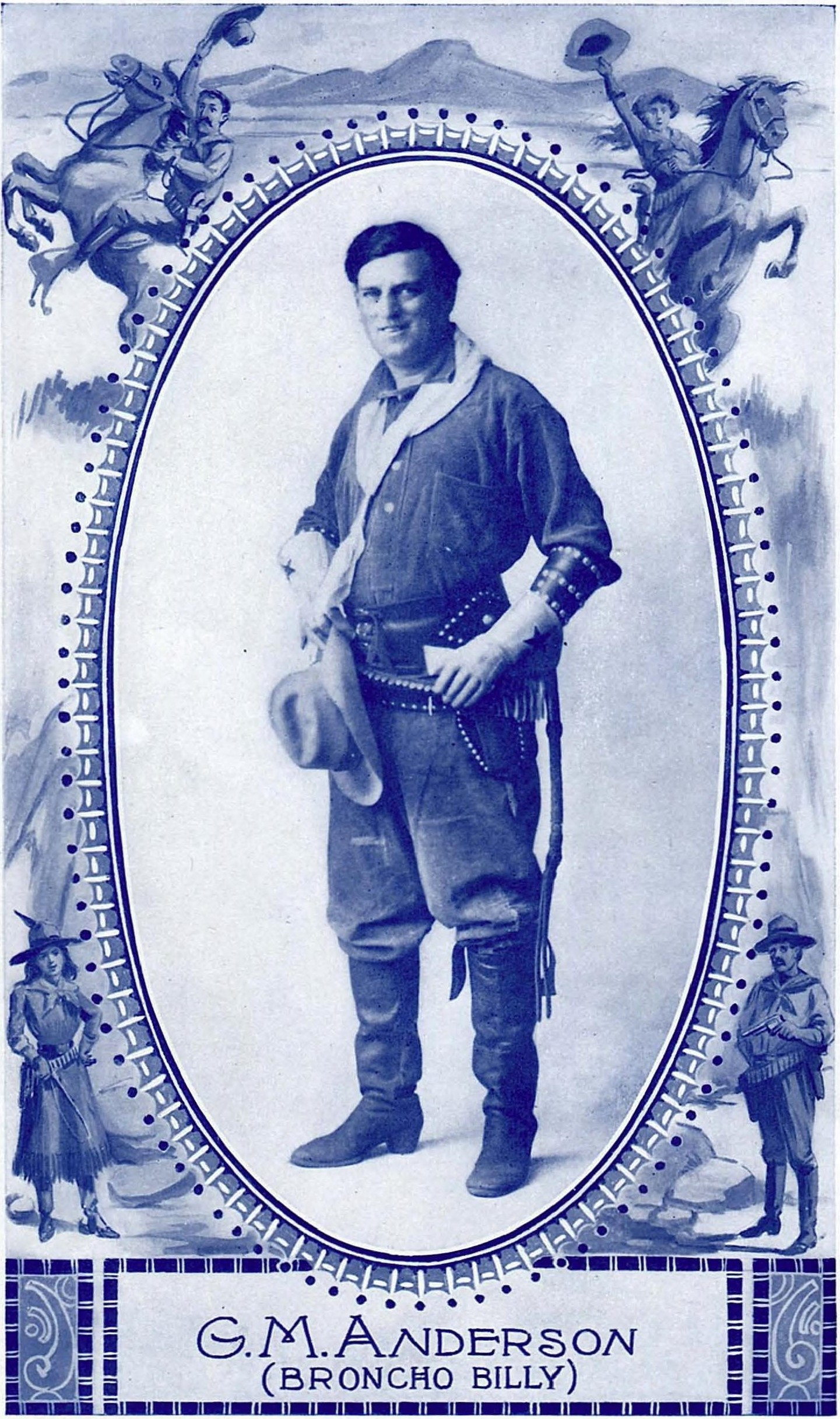 Portrait of G. M. Anderson, or "Broncho Billy"